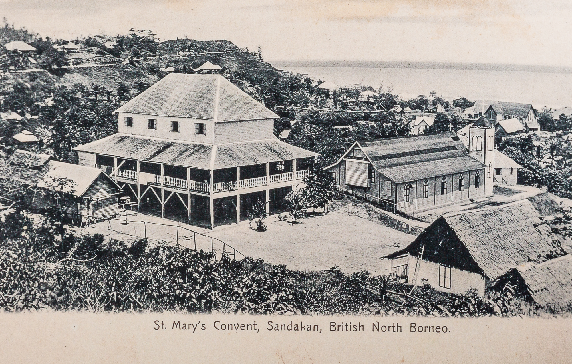 Sandakan, Sabah: Interior view of the pre-war church St. Mary's.